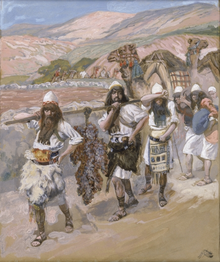 The Grapes of Canaan, c. 1896-1902, by James Jacques Joseph Tissot (French, 1836-1902), gouache on board, 10 13/16 x 9 1/16 in. (27.6 x 23 cm), at the Jewish Museum, New York